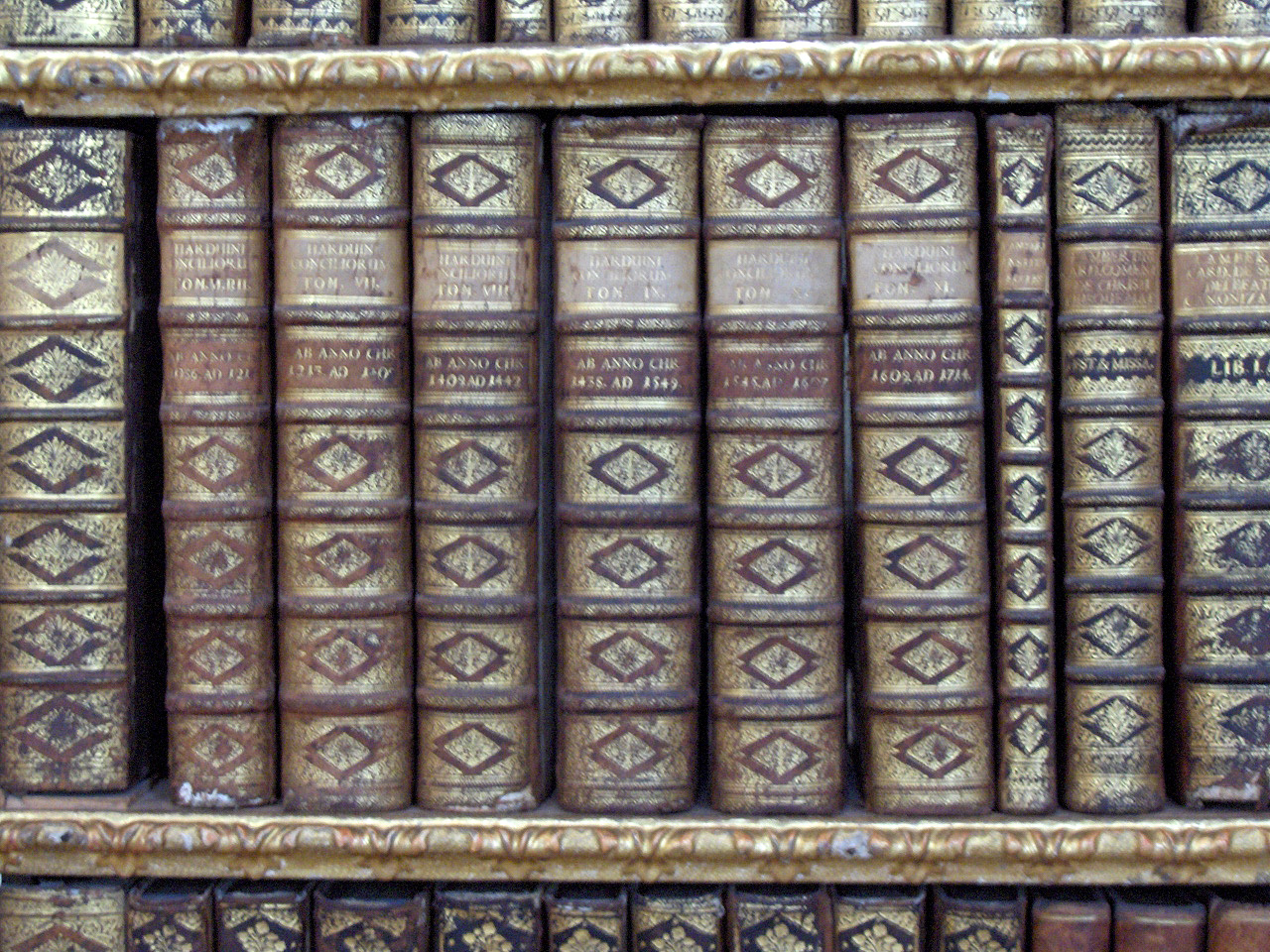 Books in library; Melk Abbey, Austria